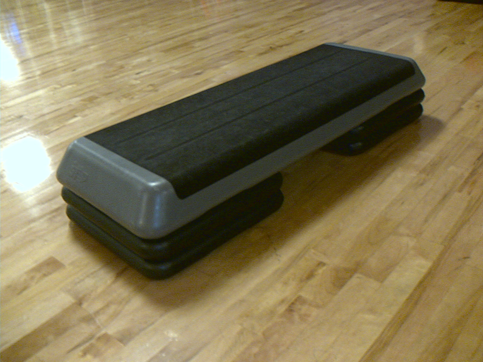 created by gujamin 13:30, 18 May 2007 (UTC)